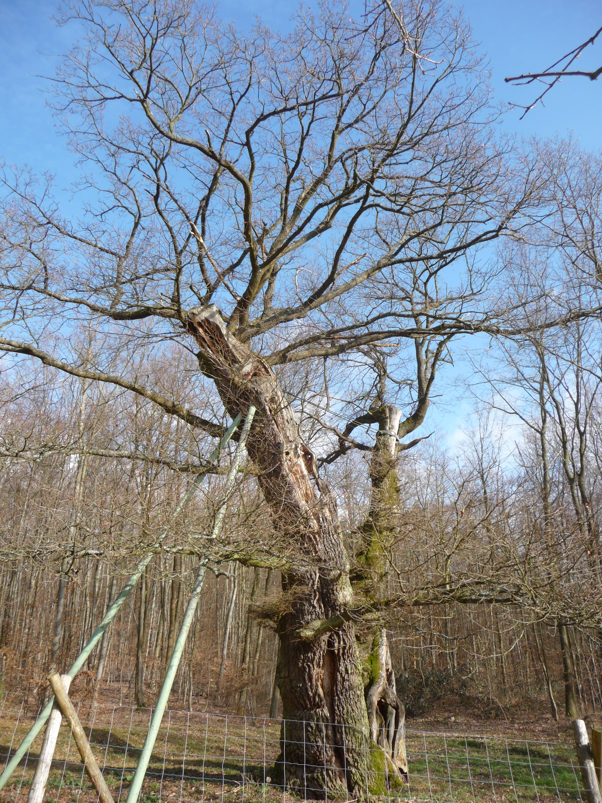 Helincheneiche